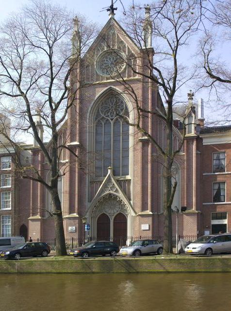 The front of the Church of Our Lady, Amsterdam